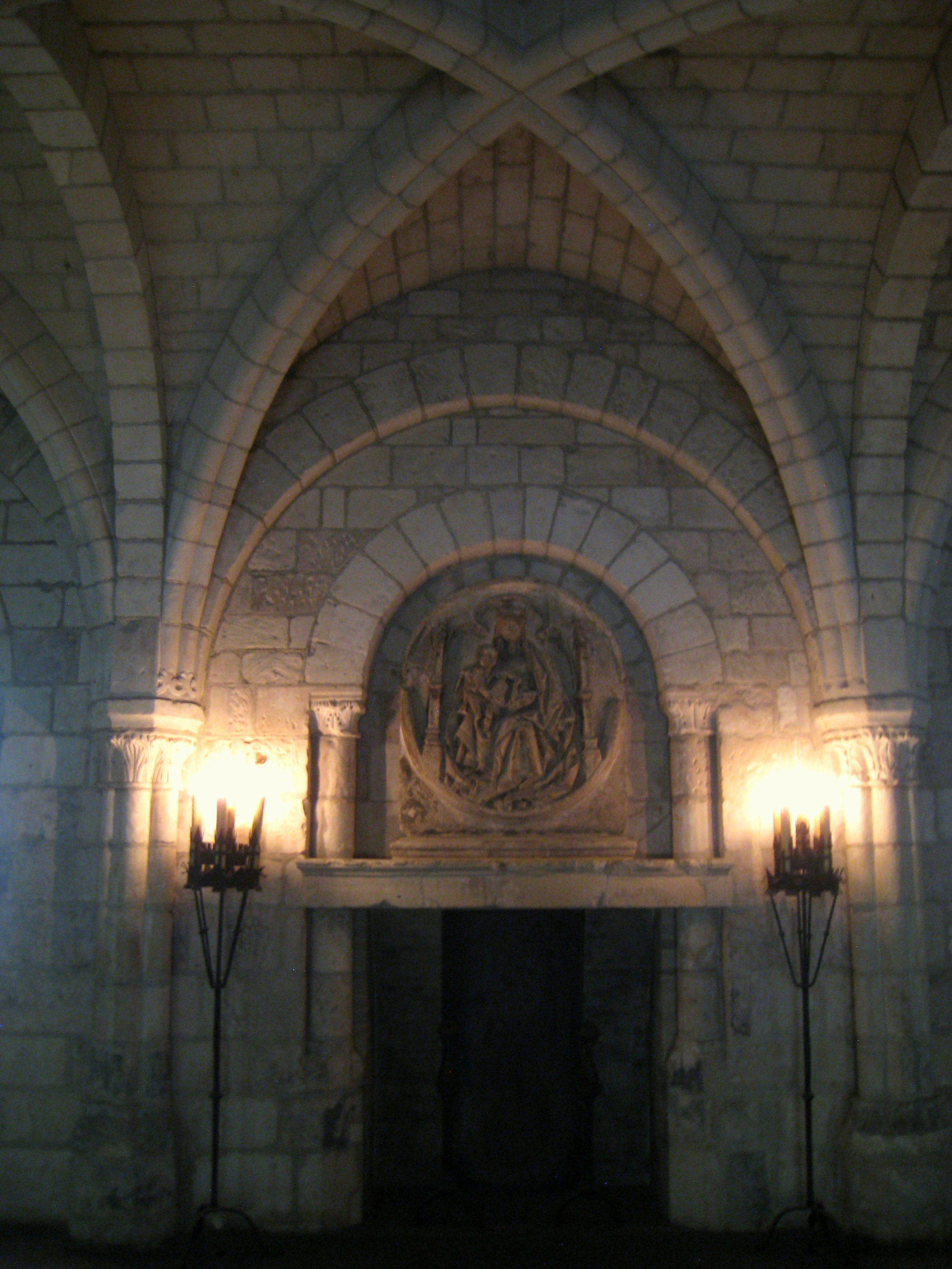 Chapter House from the Benedictine priory of Saint John Le Bas-Neuil, limestone, west-central France, 1150-1190, in the Worcester Art Museum, Worcester, Massachusetts, USA. The museum permits photography and does not restrict usage of the photographs.